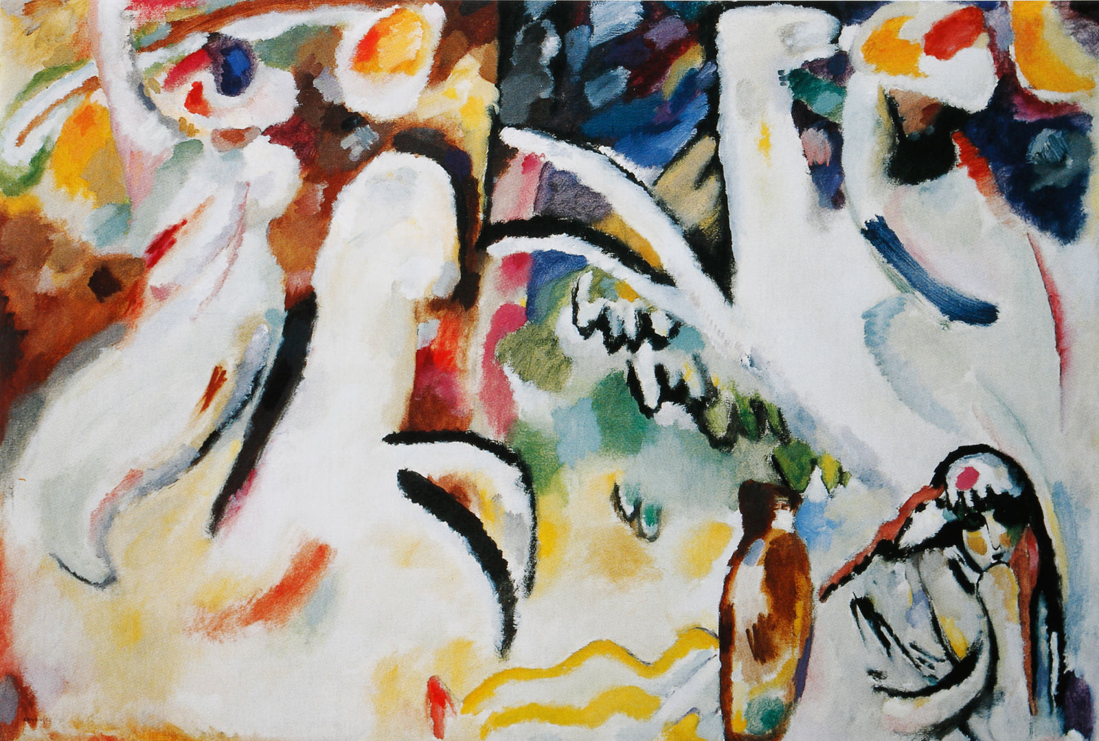 East suites. Arabs III